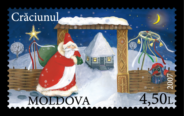 Stamp of Moldova